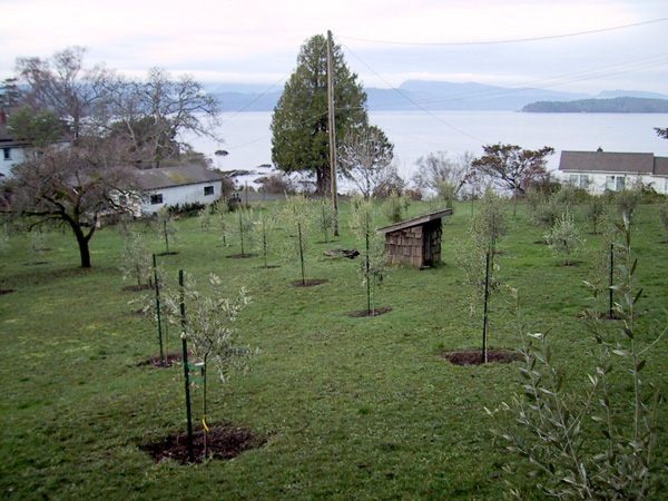 This is a photo of the olive trees off the coast of BC. The olive grove is position positioned on a downward slope. This provides a natural drainage system.